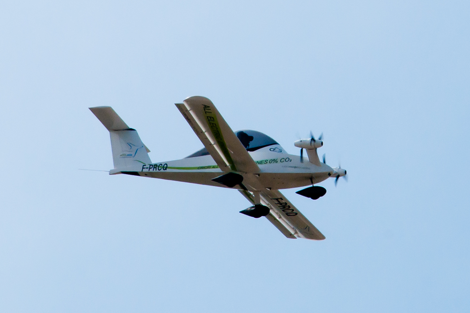 The Colomban Cri-cri (short for cricket) is the smallest twin-engined manned aircraft in the world, designed in the early 1970s by French aeronautical engineer Michel Colomban. At only 4.9 m (16.1 ft) wingspan and 3.9 m (12.8 ft) length, it is a single-seater, making an impression, at close range, of a dwarf velomobile with wings. // Wikipedia